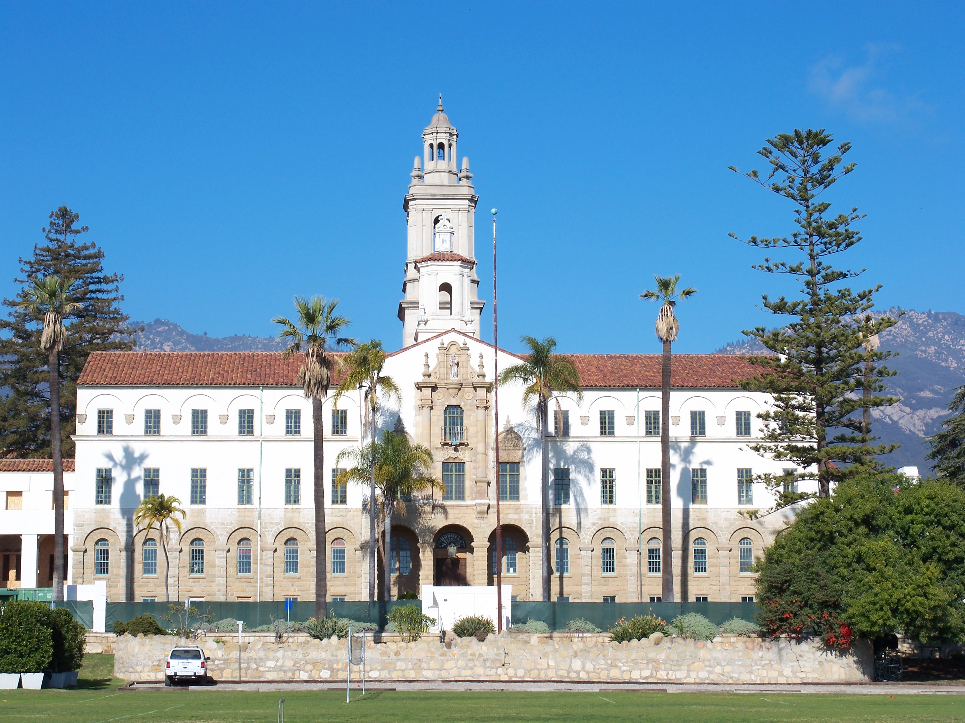 Saint Anthony's seminary. 2300 Garden Street. Santa Barbara, California, USA